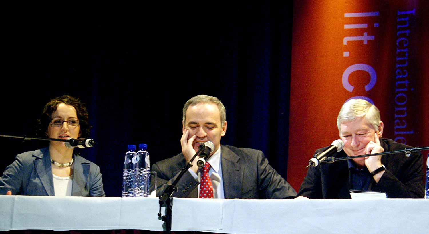 Interpreter Patricia Unflat speaks the translation of the speech of Garry Kasparov to Klaus Bednarz and the auditors on the lit.Cologne 2007.